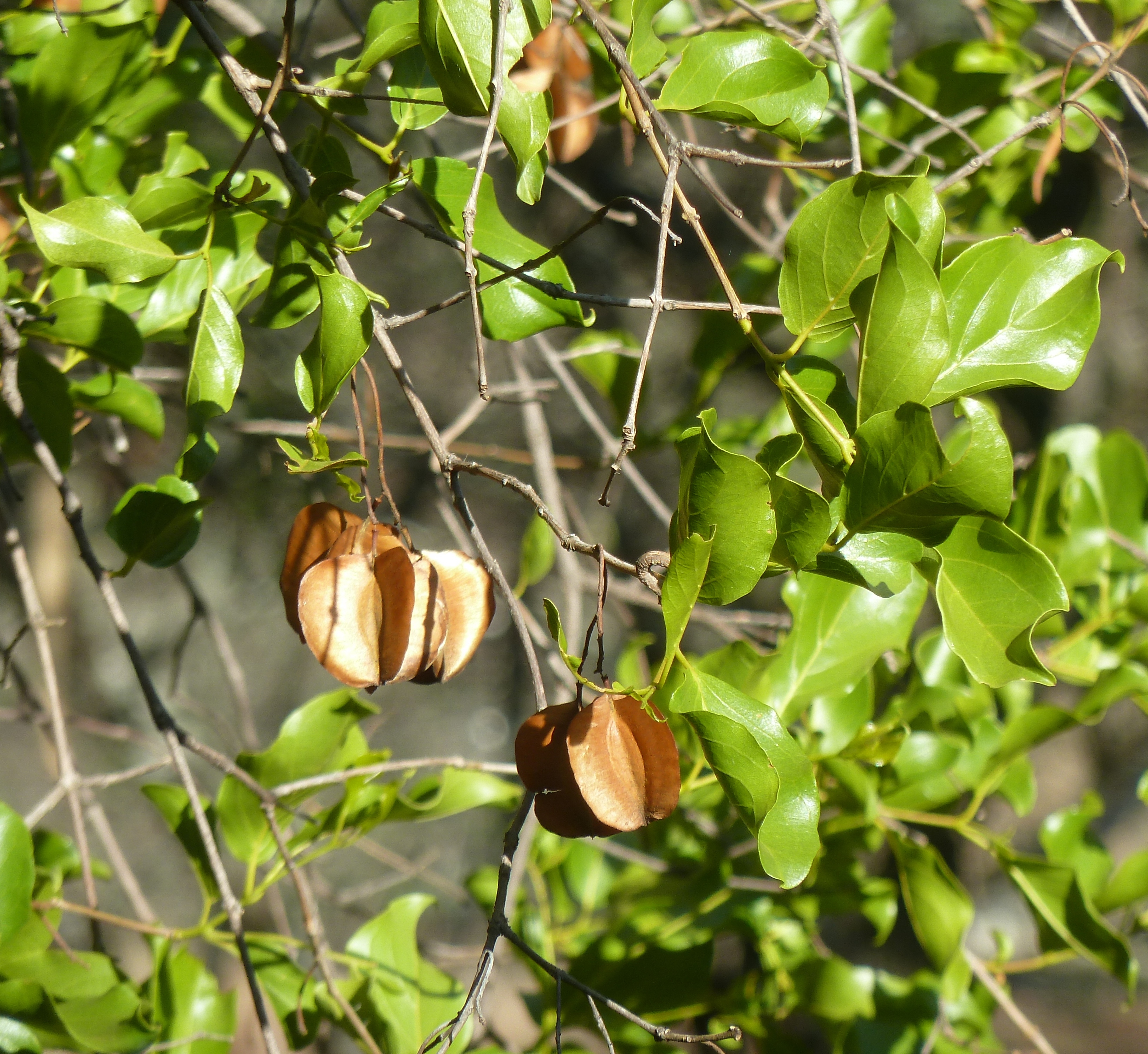 Foliage and fruit of a Red bushwillow at Phakama private lodge in Dinokeng Game Reserve, Limpopo